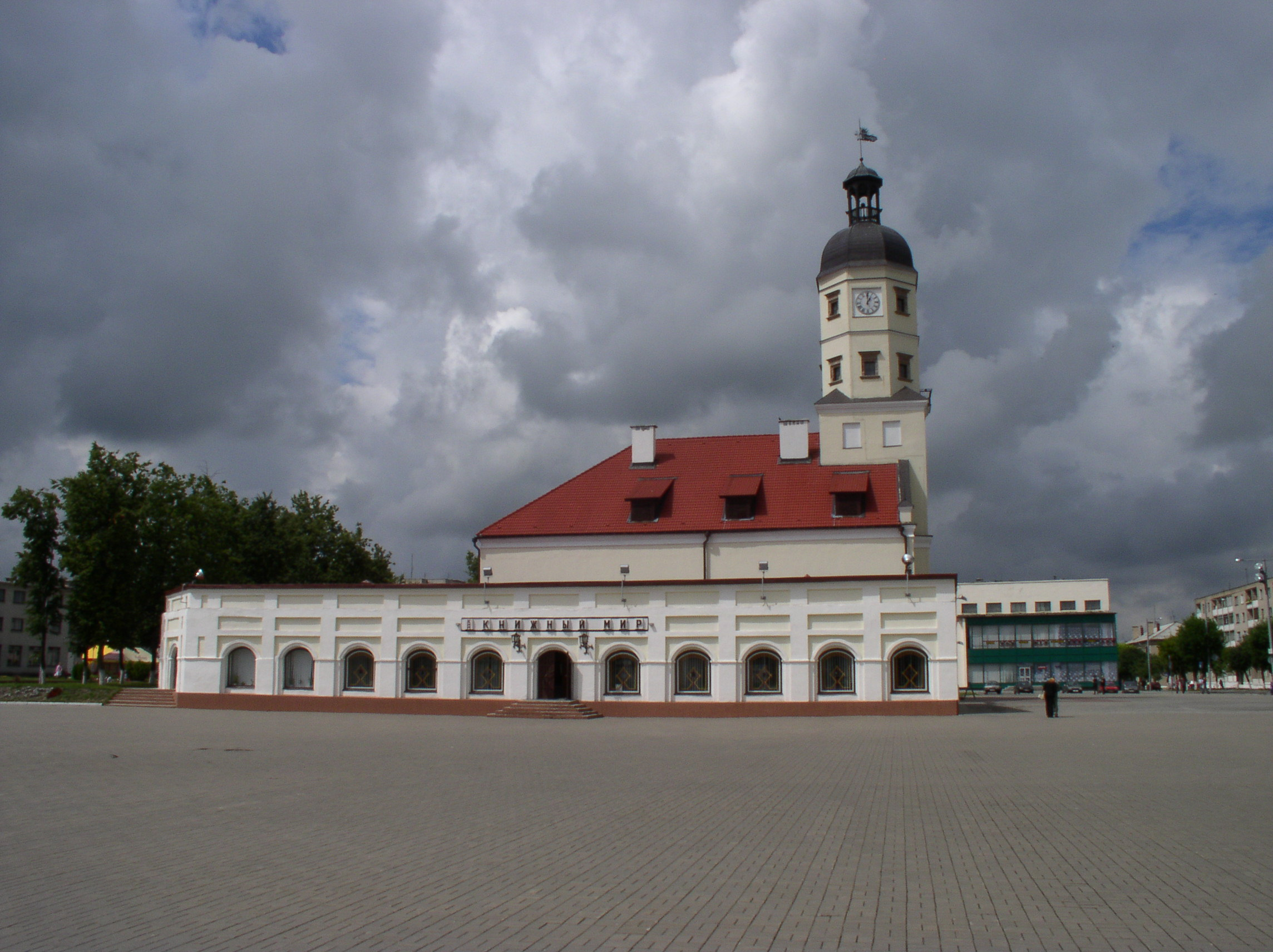 Town hall and the market rows, Niasvizh, Belarus.